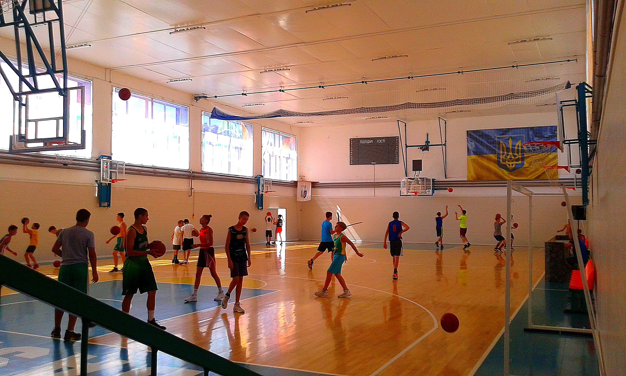 BAR BASKETBALL ARENA IN CITY OF BAR REGION OF VINNYTSIA STATE OF UKRAINE PHOTOGRAPH BY VIKTOR O LEDENYOV 20190816